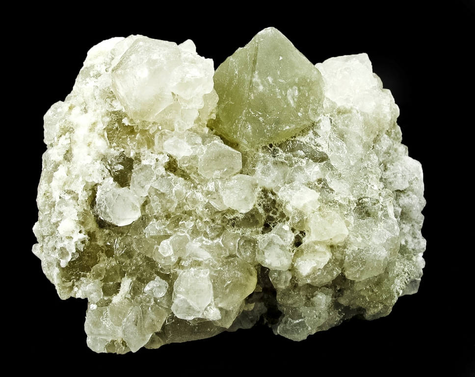 Locality: Searles Lake, San Bernardino Co., California, USA Dimensions: 6.2 cm x 4.4 cm x 4.1 cm Nestled aesthetically in a vug of borax crystals is an octahedron of lustrous and translucent, lemon-yellow Sulphohalite, measuring 1.5 cm in length. It is surrounded by lustrous and translucent, colorless crystals of borax, to 1 cm across. This is a superb, sharp, and colorful example of this very rare species from its type locality. Ex. Al Ordway Collection.